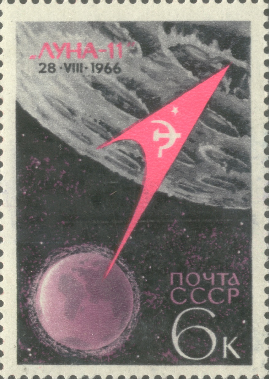 1966 Soviet Union 6 kopeks stamp. Luna 11.